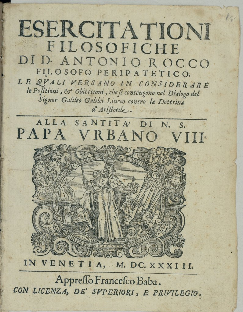 Antonio Rocco Esercitationi filosofiche di D. Antonio Rocco…